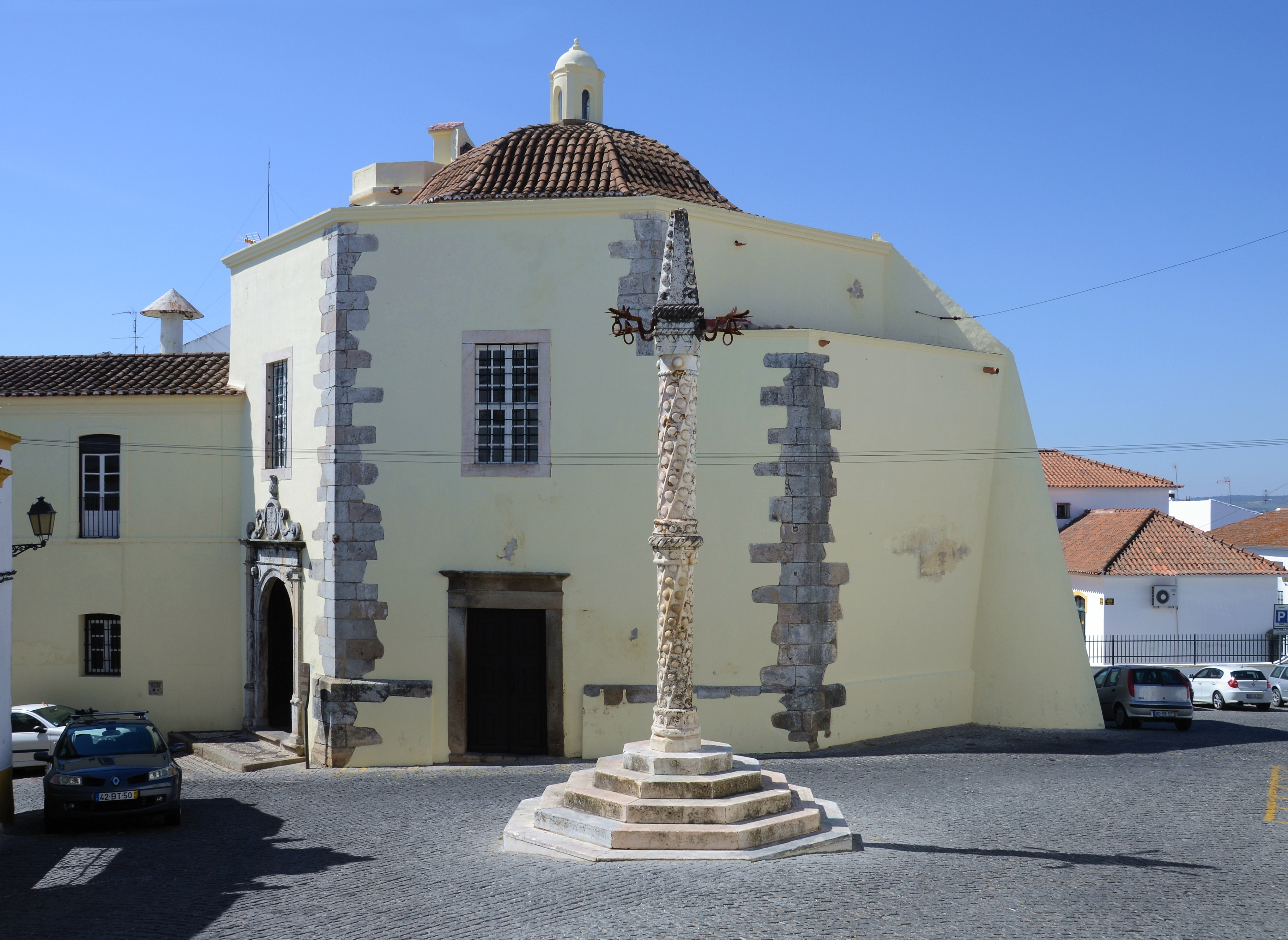 Igreja das Dominicas (Church of the Dominiques). Elvas, Portugal